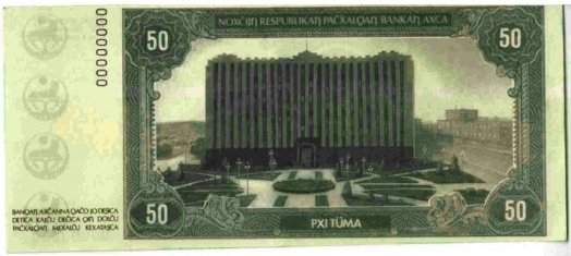 Chechen currency 50 naxar